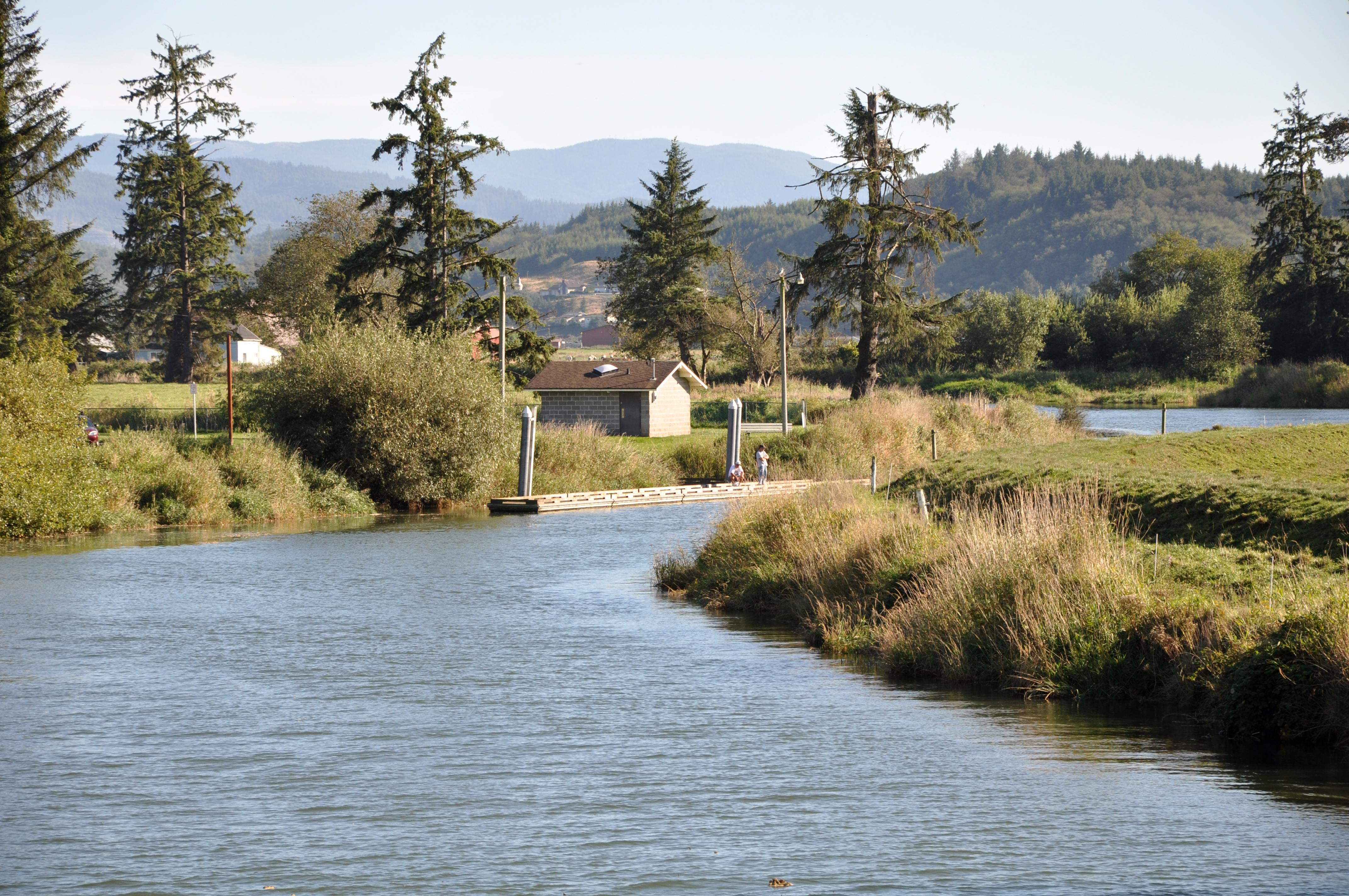 Trask River at Tillamook, Oregon, in the United States. The view is upstream, southeast, from the Oregon Route 131 bridge.